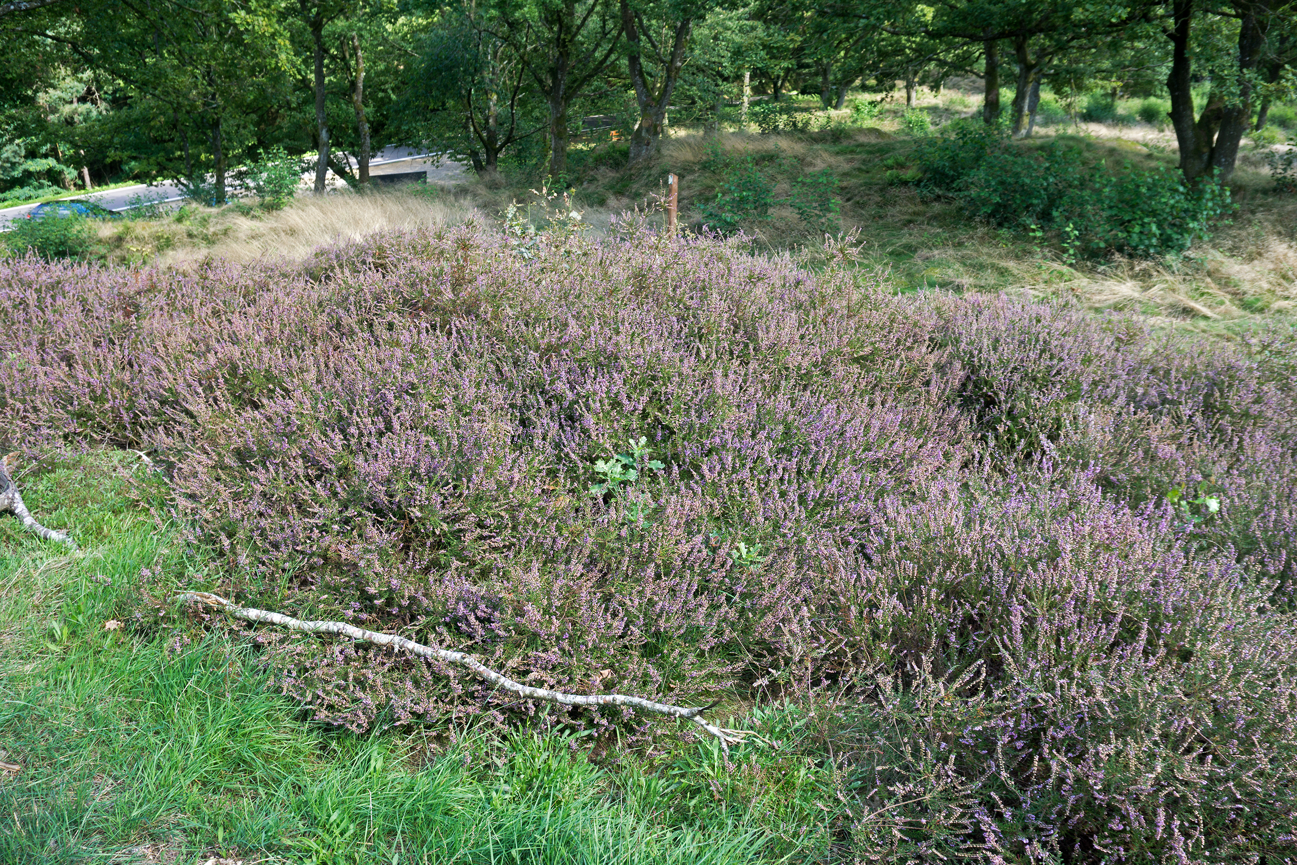 Heath in the protected landscape near Aechelbur